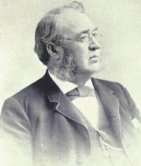 John Teague Source: The Canadian album : men of Canada; or, Success by example, in religion, patriotism, business, law, medicine, education and agriculture; containing portraits of some of Canada's chief business men, statesmen, farmers, men of the learned professions, and others; also, an authentic sketch of their lives; object lessons for the present generation and examples to posterity (Volume 4) (1891-1896) Creator:Cochrane, William, 1831-1898 Creator:Hopkins, J. Castell (John Castell), 1864-1923 Publisher:Brantford, Ont. : Bradley, Garretson & Co. Date:1891-1896